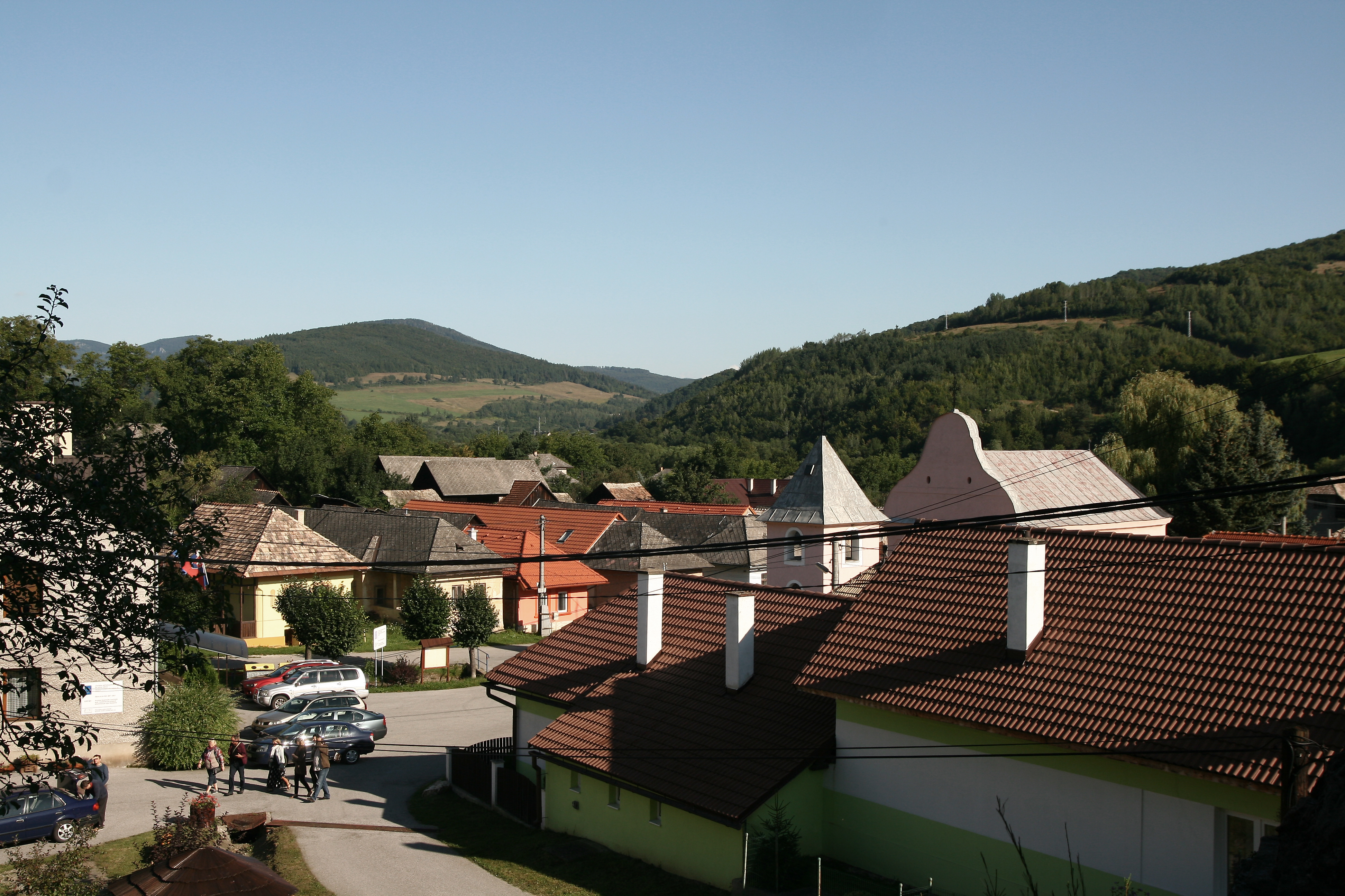 View on the village of Henckovce, in the middle local Evangelical church.